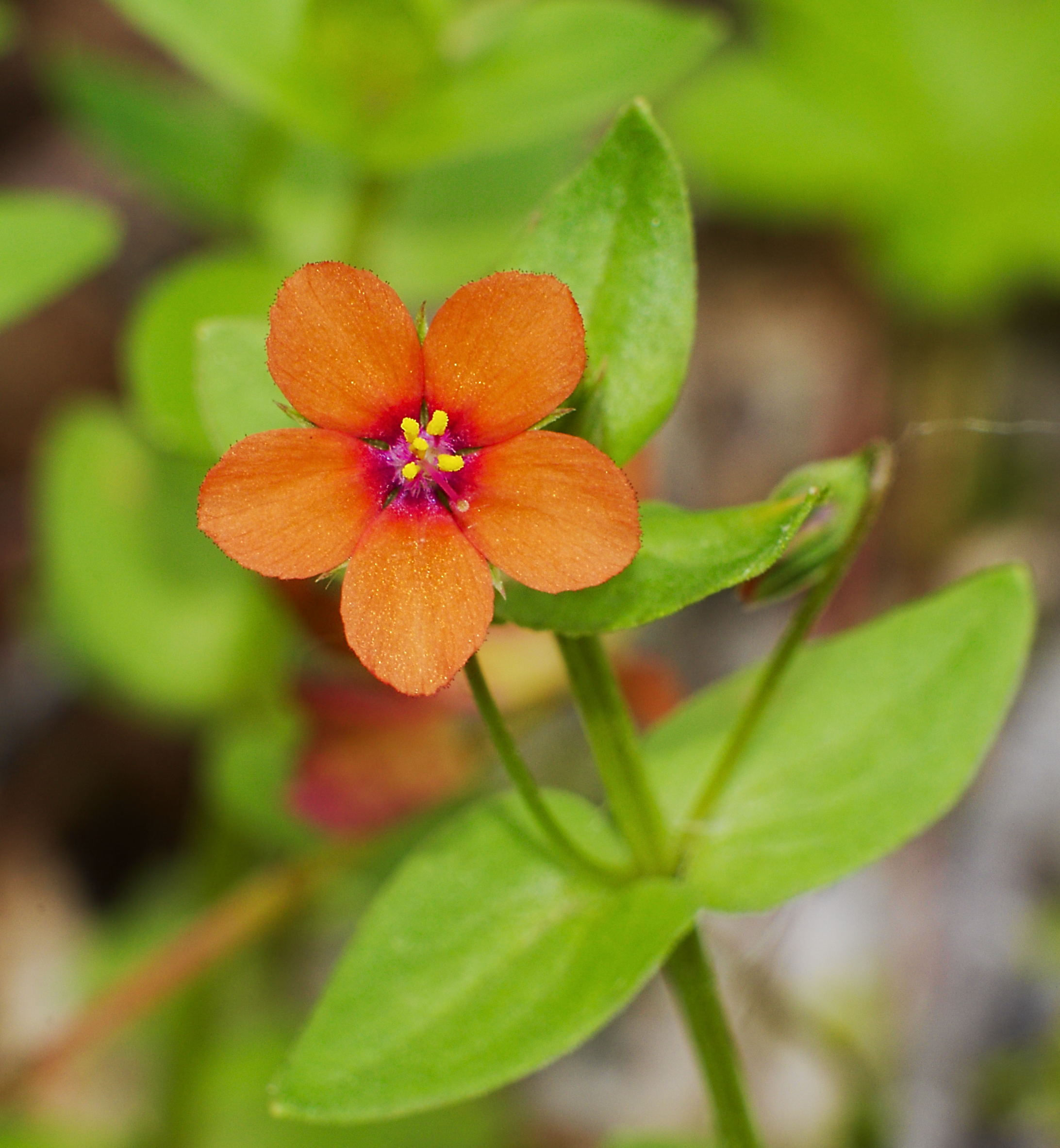 Red pimpernel - Anagallis arvensis. Taken by the Bonadieshafen, Friesenheimer Insel in Mannheim, Baden-Württemberg, Germany.